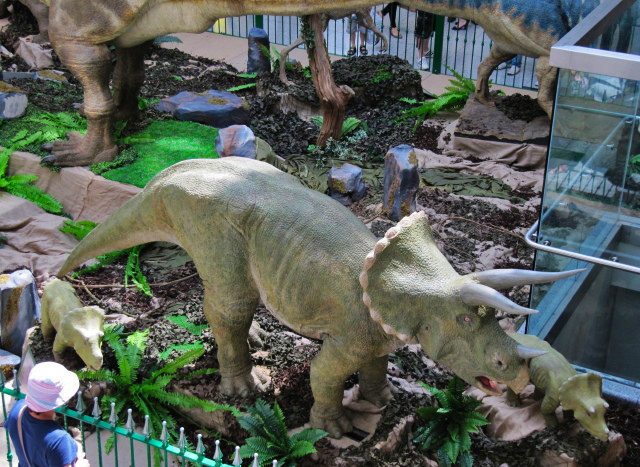 Brighton dinosaurs - Triceratops